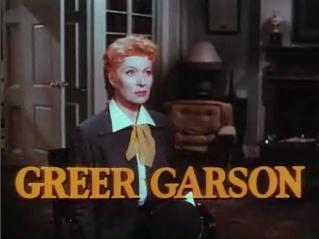 Cropped screenshot of Greer Garson from the trailer for the film Her Twelve Men